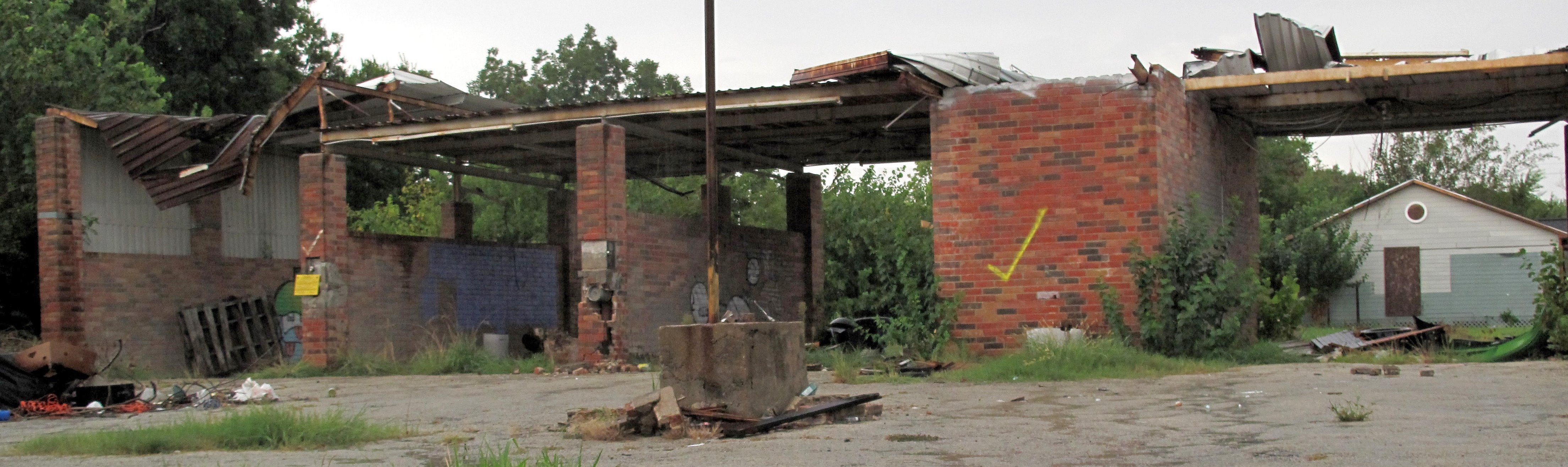 Abandoned car wash in Houston, Texas.